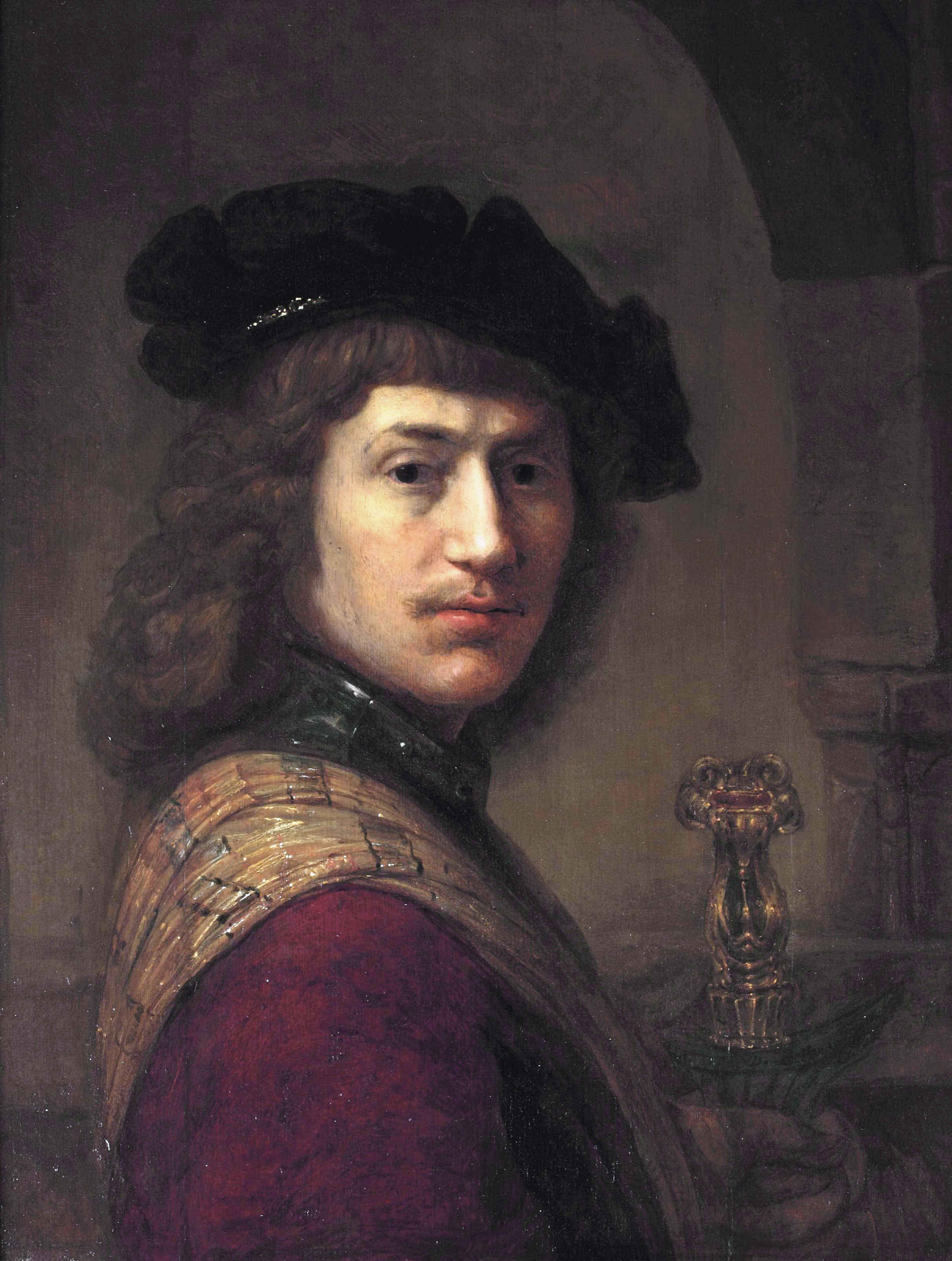 Tronie of a young man in a red jacket and a 'halsberg', holding an Indonesian kris oil on panel 62.5 x 47.6 cm signed b.r.: v. Beijer.. f.